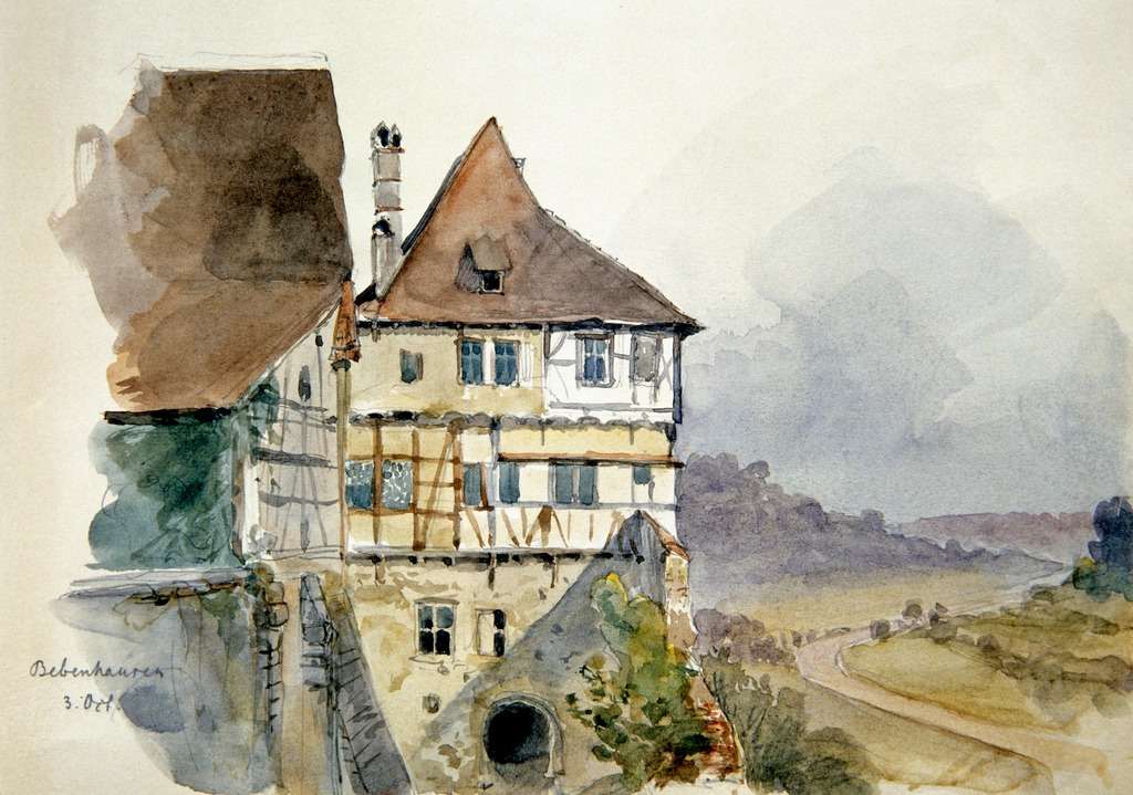 Timberframe buildings on the wall of the monastery Bebenhausen near Tübingen (Germany)